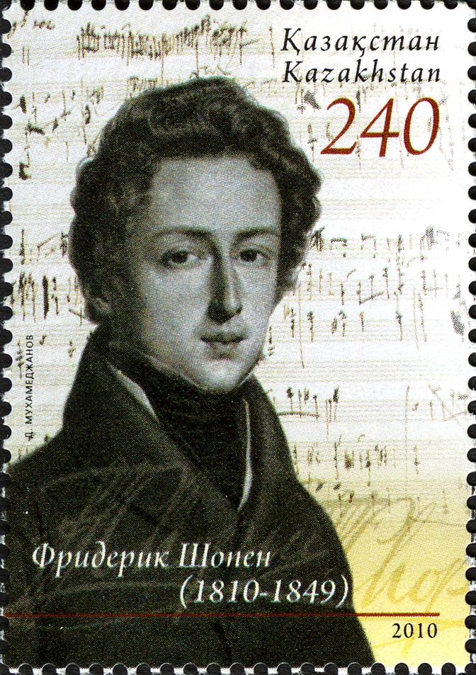 Stamps of Kazakhstan